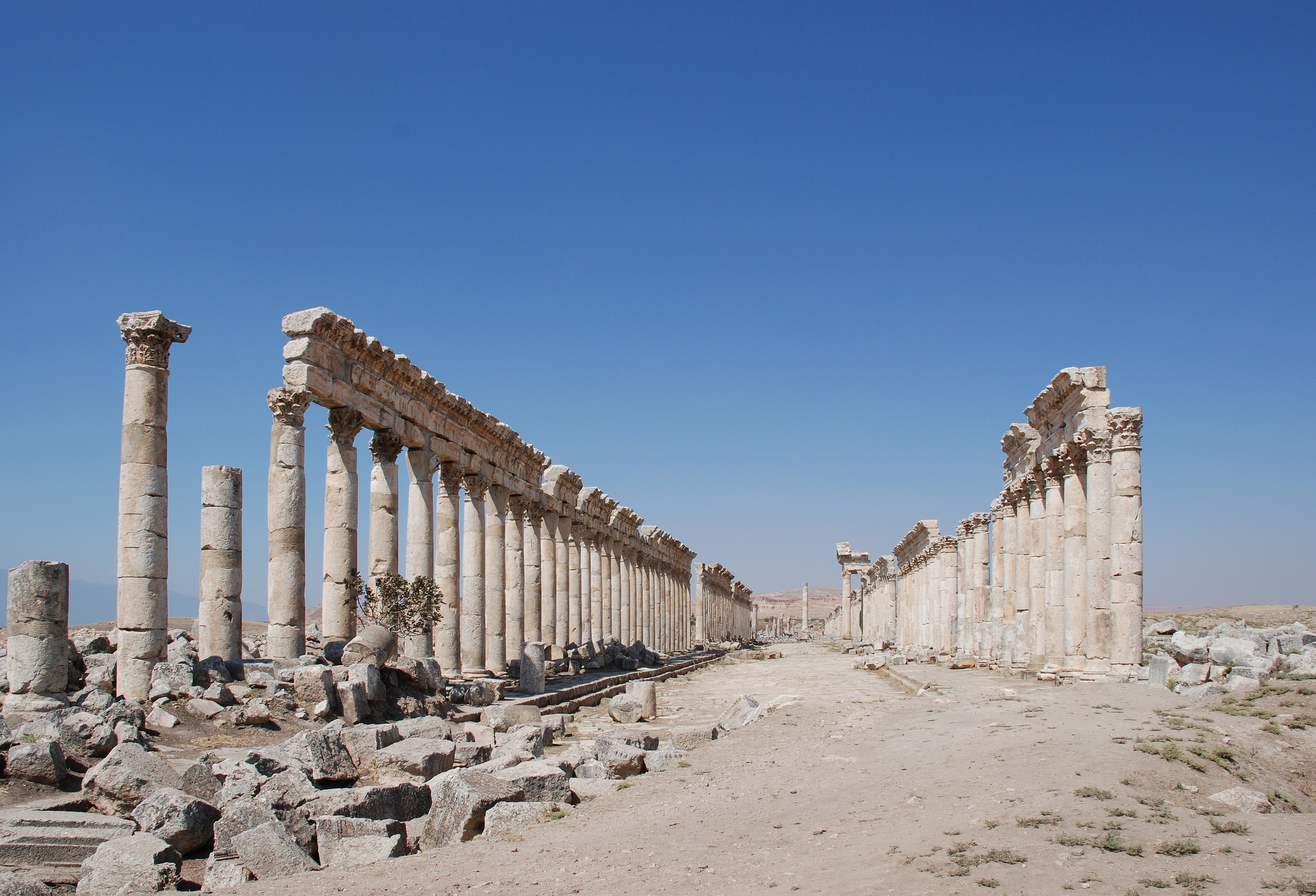 Great Colonnade at Apamea, Syria.